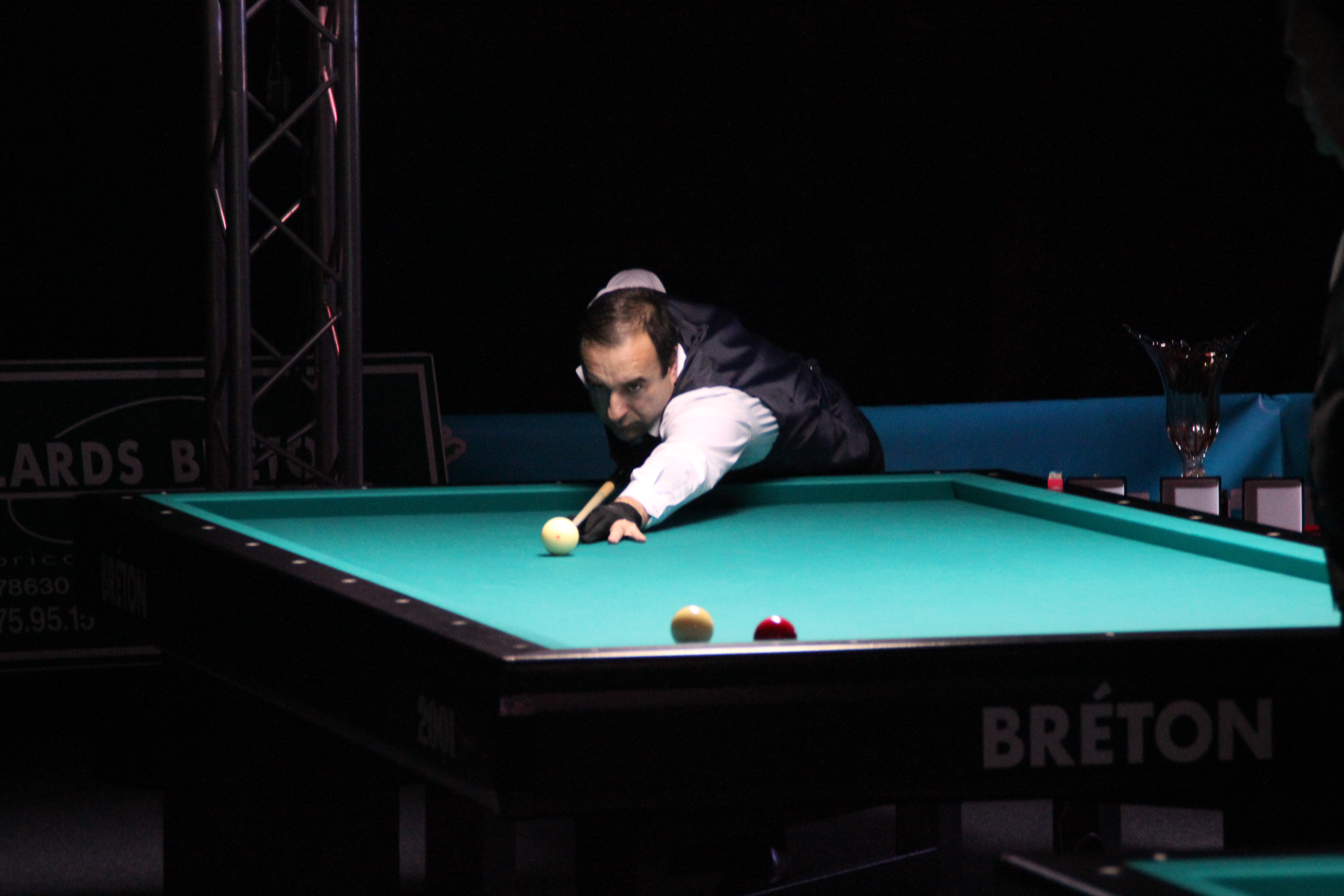 French championships of carom billiards 2012 in Voisins-le-Bretonneux. - Google Maps - Google Earth